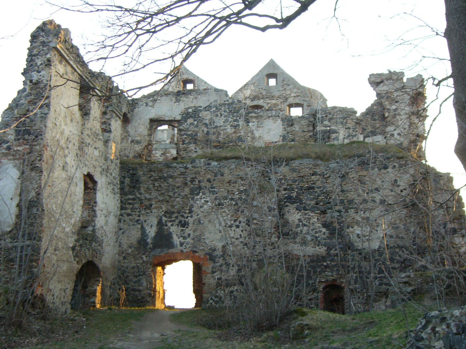 Castle "Gryf" - ruins.